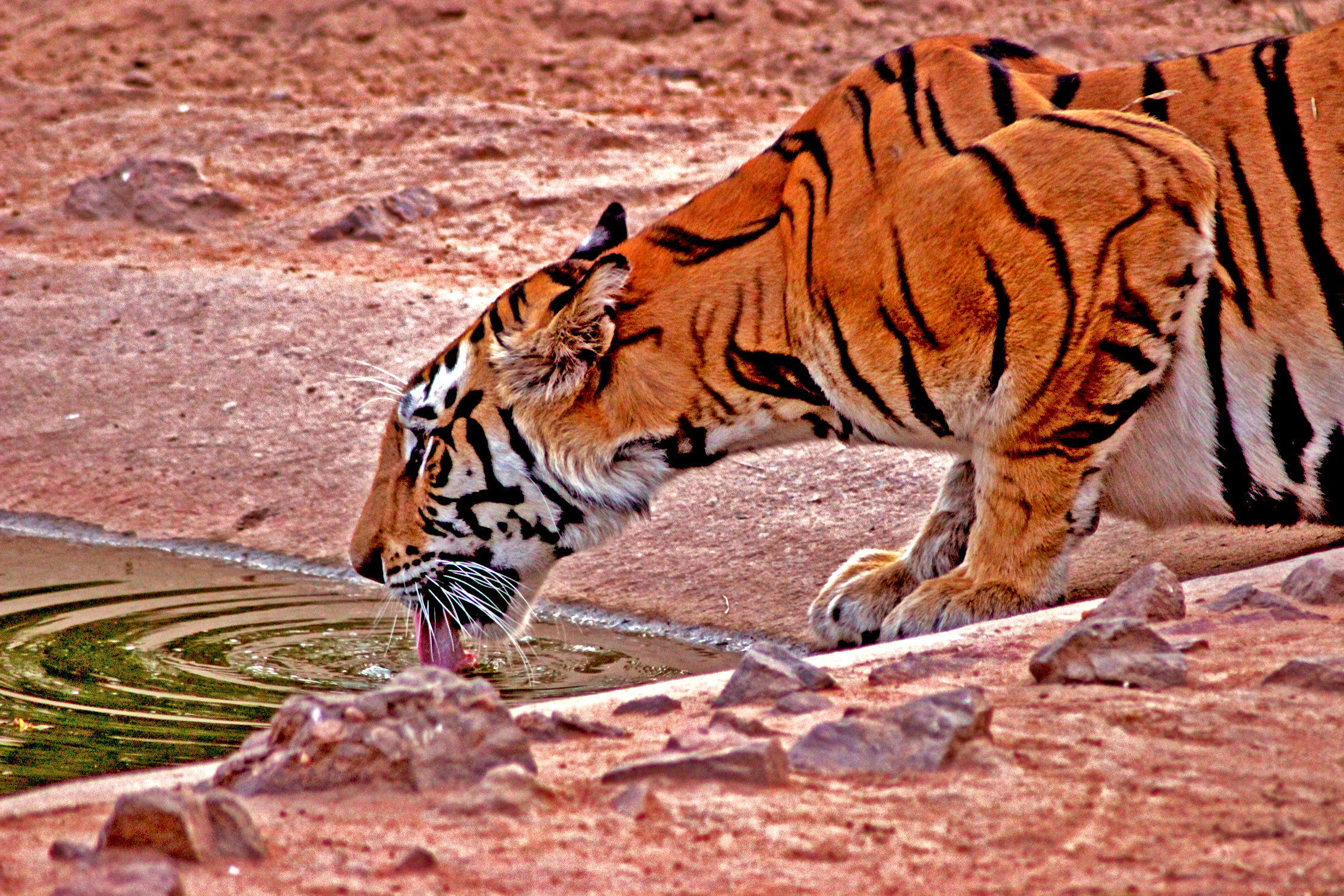 the photograph shows the "Kan-kati " female, a 3 year old tigress at the Bandhavgarh Tiger Reserve quenching her thiret after a powerful nap.